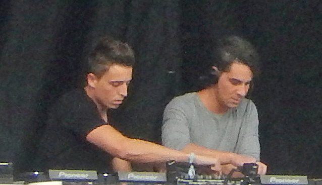 Blasterjaxx live at Spring Awakening 15th June 2014